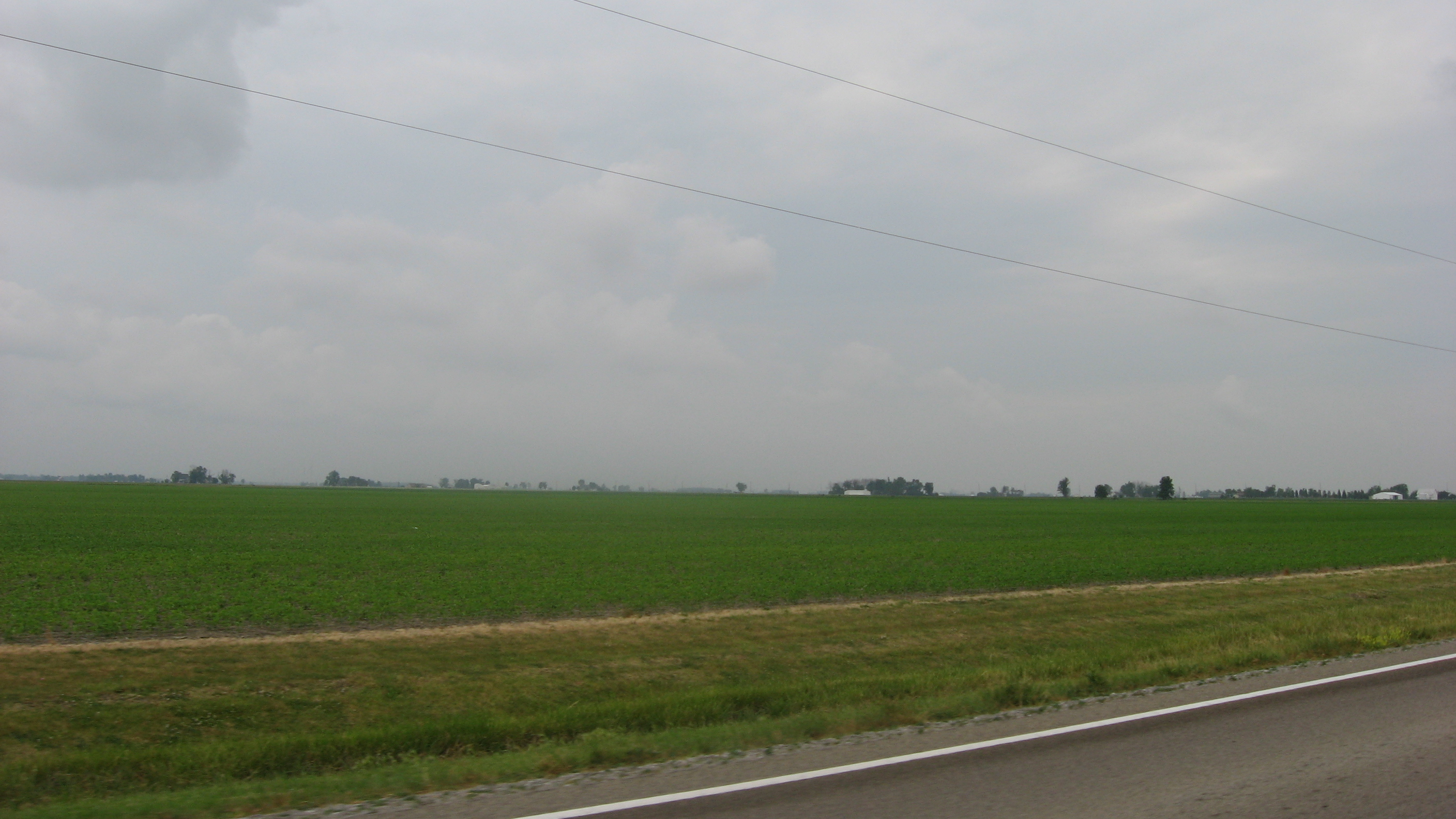 Countryside on the southern side of State Route 111 west of Paulding in Harrison Township, Paulding County, Ohio, United States. The site lies about 0.2 miles east of the Township Road 51 intersection.